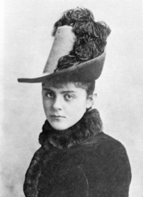 Photo of baroness Marie Alexandrine von Vetsera in 1887